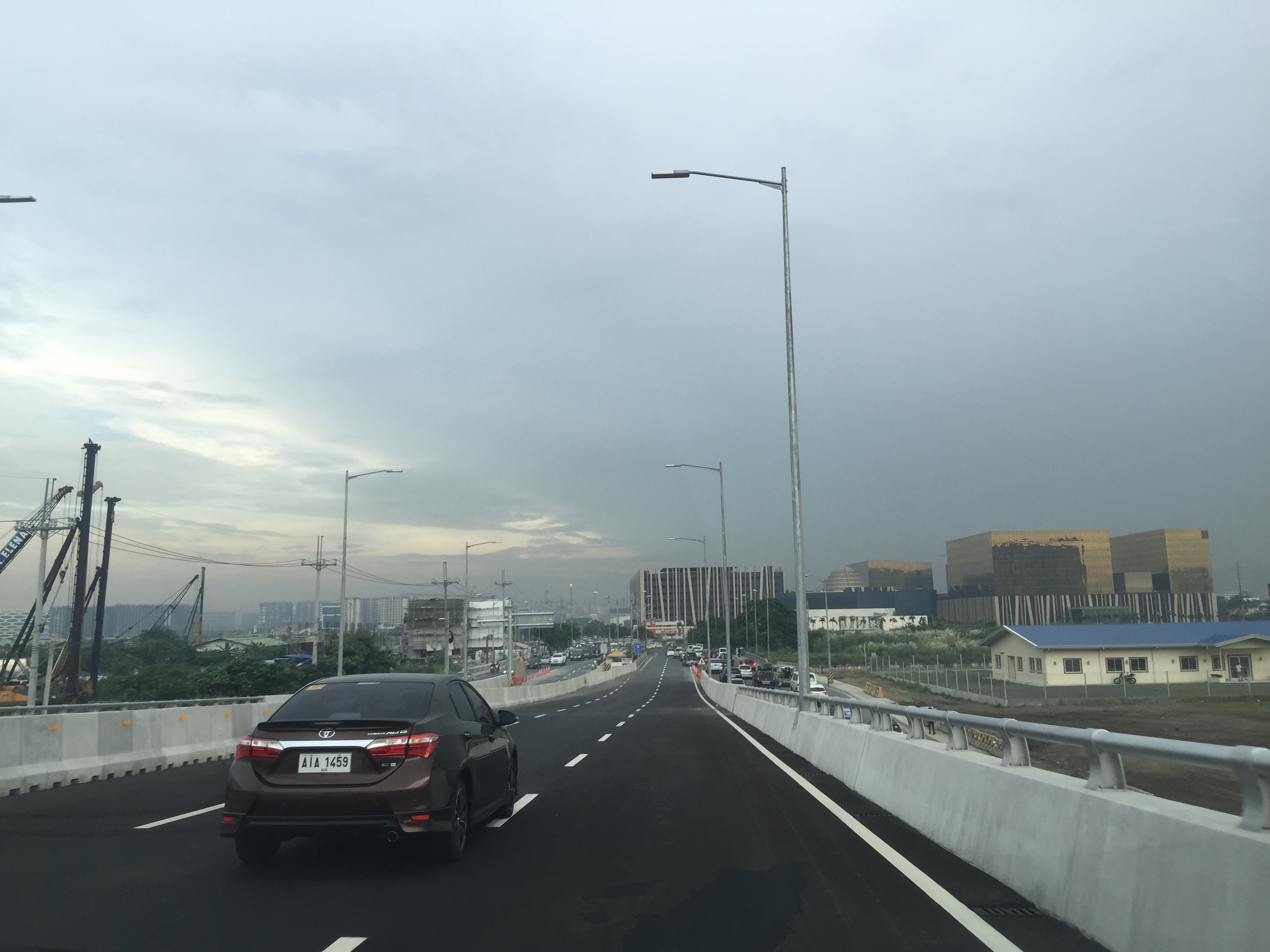 On the NAIA Expressway Macapagal Boulevard off-ramp looking towards City of Dreams Manila and Solaire Resort & Casino in Entertainment City, Parañaque, Metro Manila